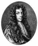 Sir Thomas Thynne of Longleat (1648–1682), genannt Tom of Ten Thousand.